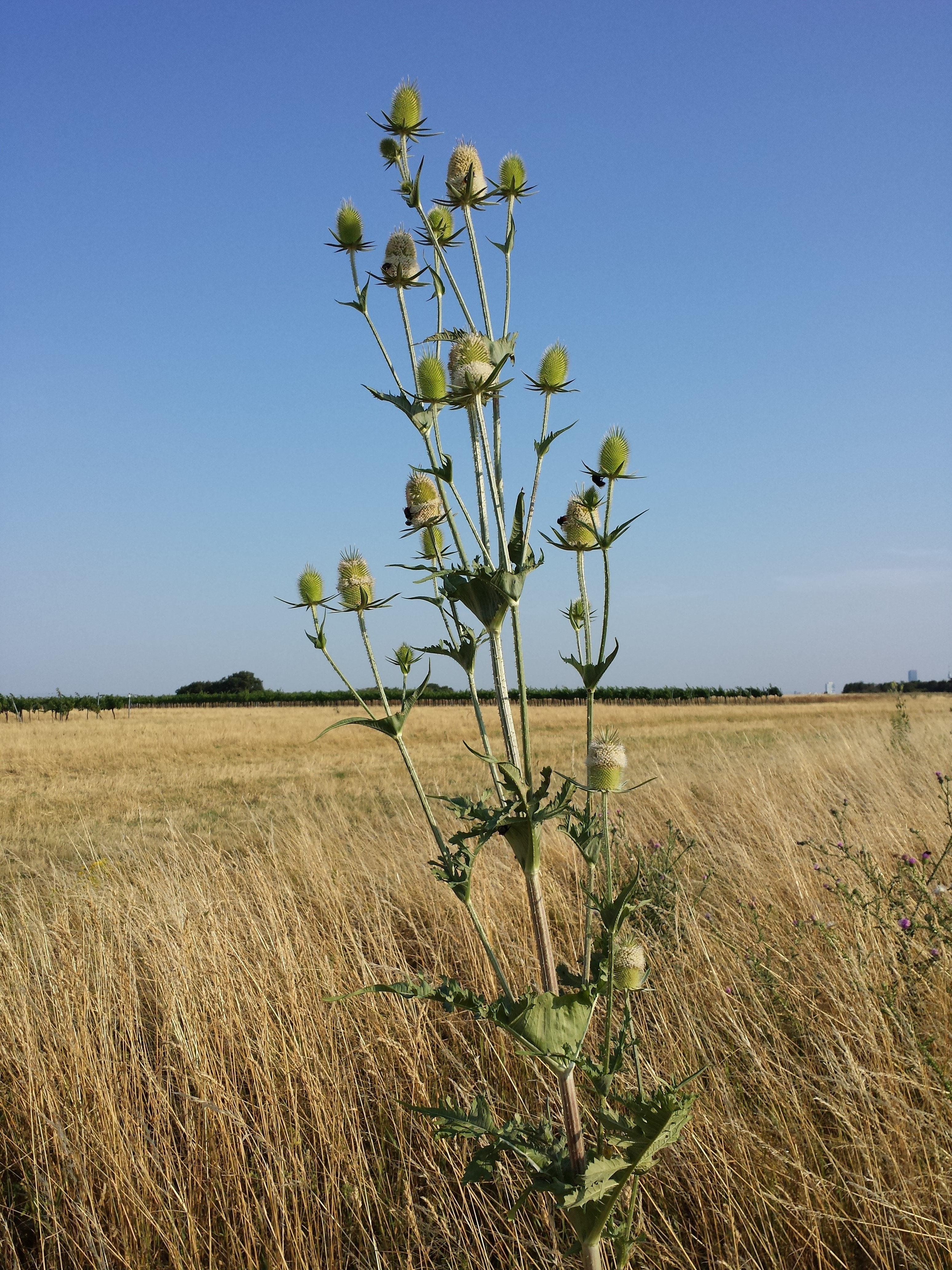 Habitus Taxonym: Dipsacus laciniatus ss Fischer et al. EfÖLS 2008 ISBN 978-3-85474-187-9 Location: near Alte Schanzen, Floridsdorf, Vienna - ca. 225 m a.s.l. Habitat: fallow land